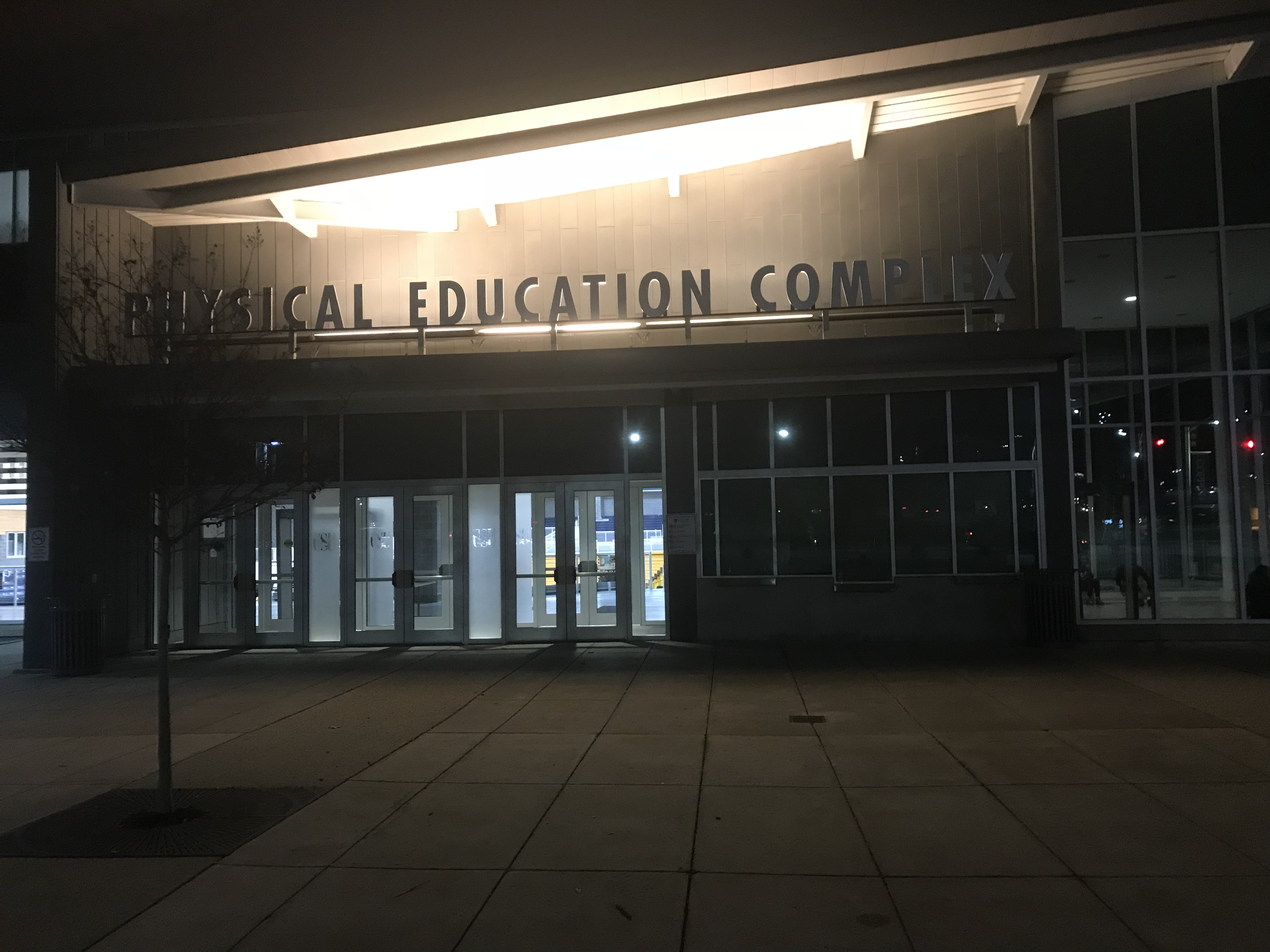 The entrance to the Physical Education Complex at Coppin State University